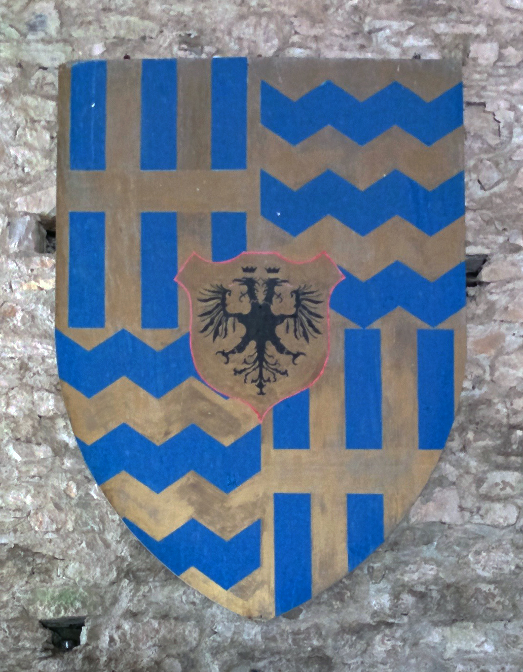 cropped and straightened version of File:Stemma famiglia Landi ingresso Castello di Bardi.jpg, photographed and uploaded by Carloferrari